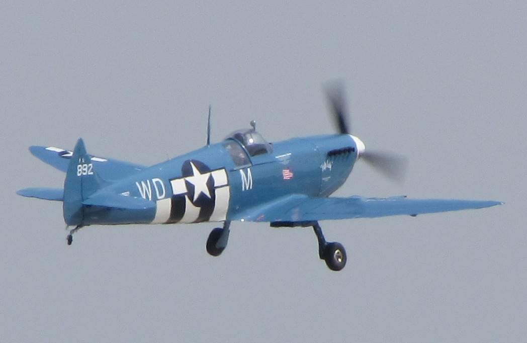 Supermarine Spitfire Mk26